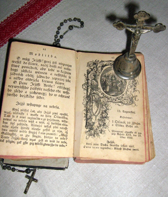 holy heel(holy Bible and cross) in the provincial slovak house(Bánhida-Tatabánya)